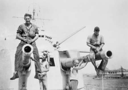 AWM caption : "ALEXANDRIA, EGYPT. 1940-07-21. MEMBERS OF THE SHIP'S COMPANY, BOB LINKLATER (LEFT) AND JACK CLARK, SITTING ON THE 6 INCH GUN BARRELS OF A TURRET OF THE CRUISER HMAS SYDNEY (II) AS THEY PREPARE THEM FOR REPAINTING AFTER THE PAINT HAD BEEN DAMAGED DURING THE ACTION OFF CAPE SPADA. TWO FLEET RESERVE RATINGS ARE WORKING ON THE BARRELS IN THE BACKGROUND. SIMILAR WORK IS BEING CARRIED OUT ON B TURRET WHICH IS TRAINED TO PORT WITH THE RIGHT GUN ELEVATED."